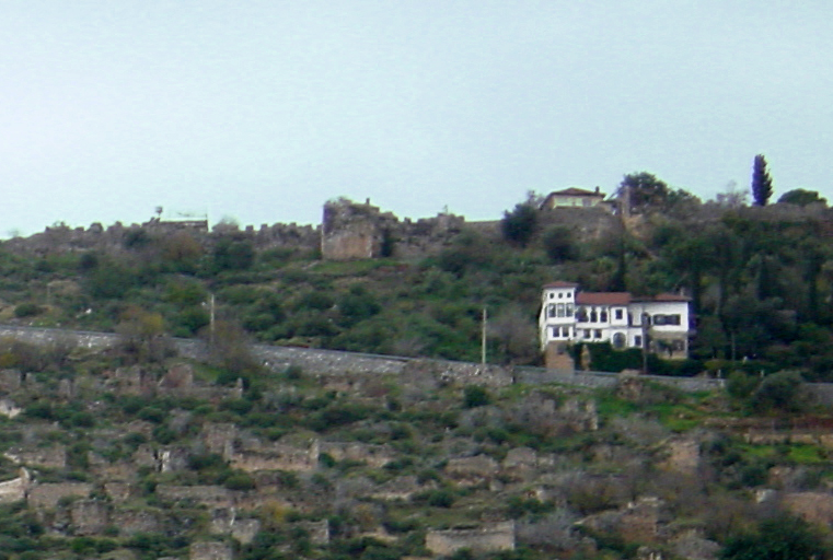 McGhee Center for Eastern Mediterranean Studies viewed from the Mediterranean Sea